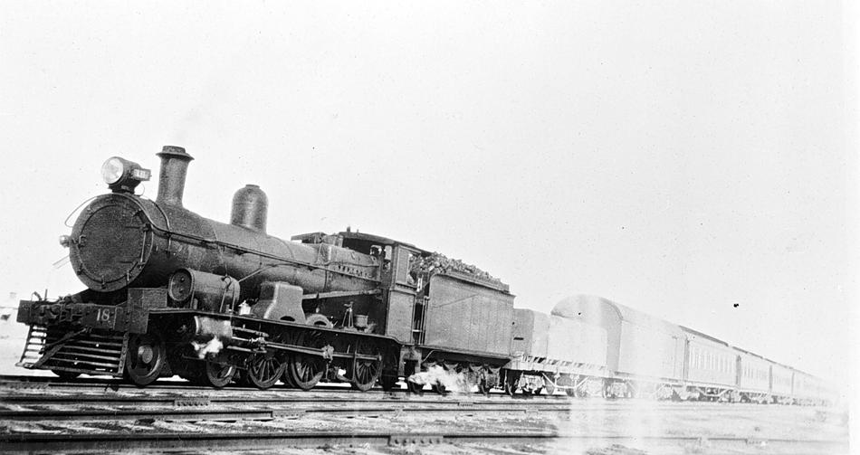 Commonwealth Railways G class locomotive no. G18 with the Trans-Australian Express, at Cook, South Australia, on the Trans-Australian Railway.The locomotive was built by Toowoomba Foundry, Toowoomba, Queensland, Australia. It entered service in August 1916, was officially withdrawn in October 1950, and was scrapped in March 1959.Some of the information provided here about the image is obtained from Fluck, Ronald E; Marshall, Barry; Wilson, John (1996). Locomotives and Railcars of the Commonwealth Railways. Welland, SA: Gresley Publishing, p. 29. ISBN 0959969039.